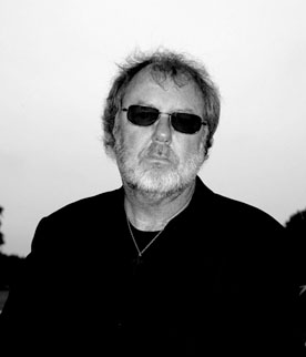 Roger Cotton by Blake Powell